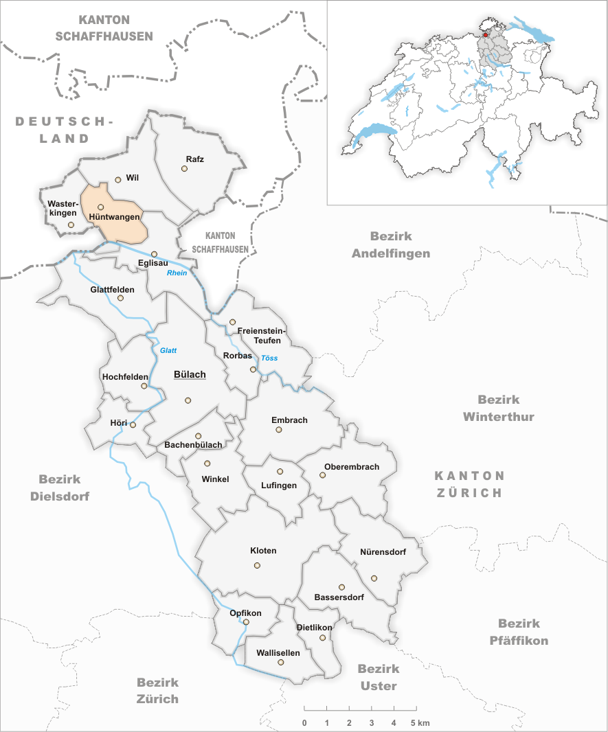 Municipality Hüntwangen